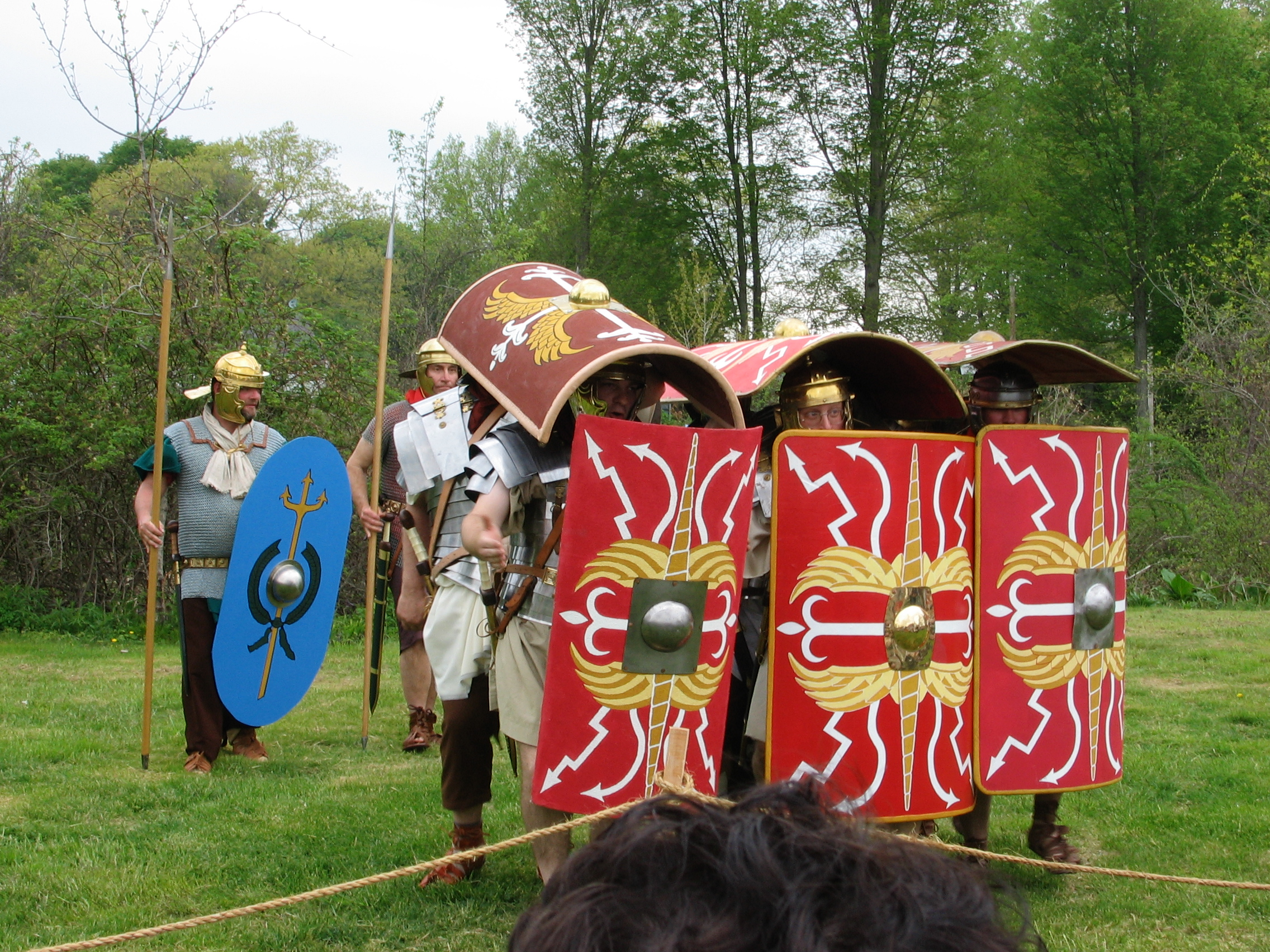 Picture uploaded by the author. Taken on May 15, 2005. Roman re-enactors demonstrate a testudo formation (The Tortoise)